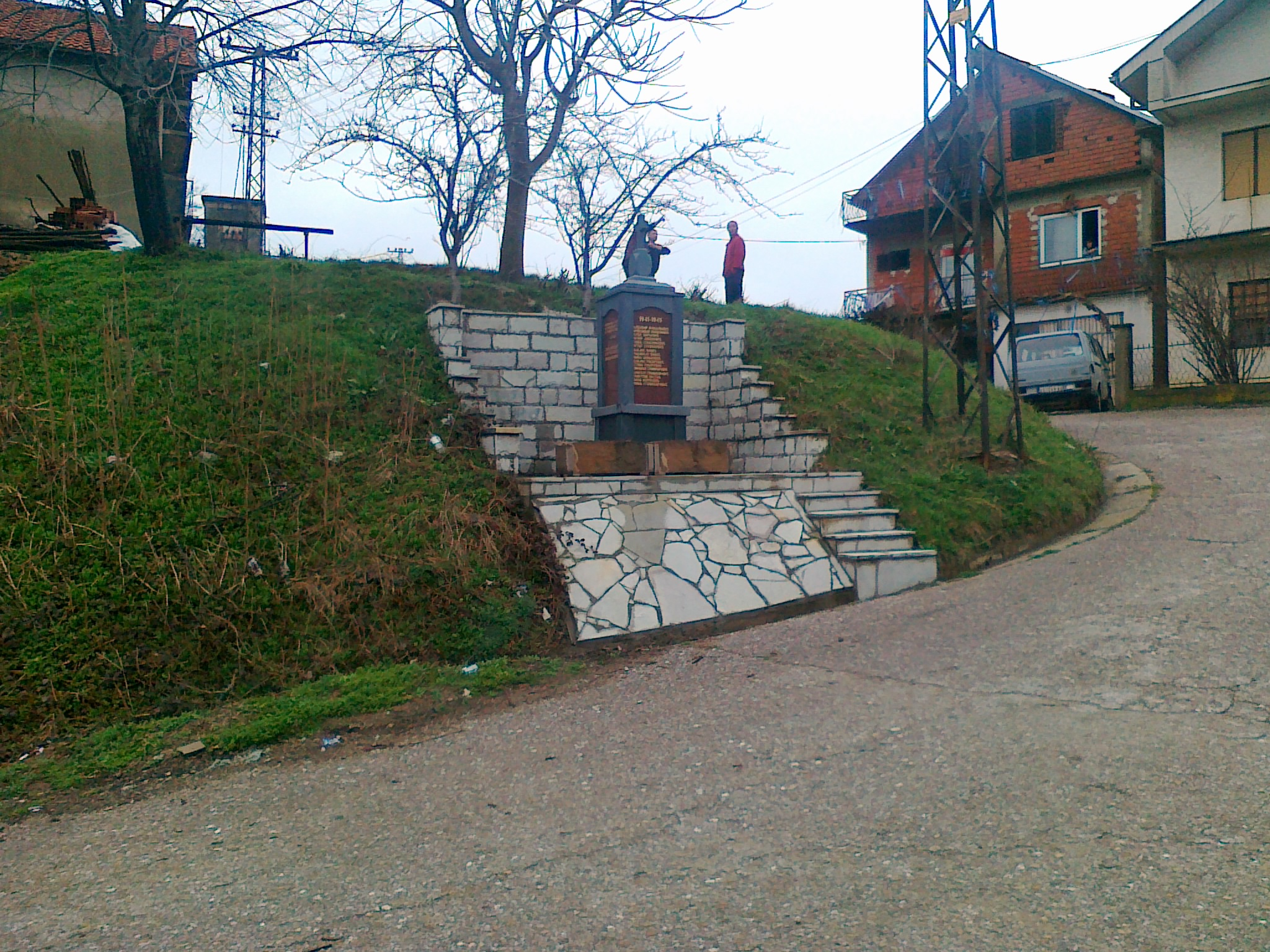 Selo Jastrebac